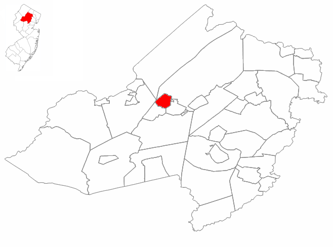 Position of Wharton (highlighted in red) in Morris County. Morris County's position in New Jersey is in turn highlighted in red.